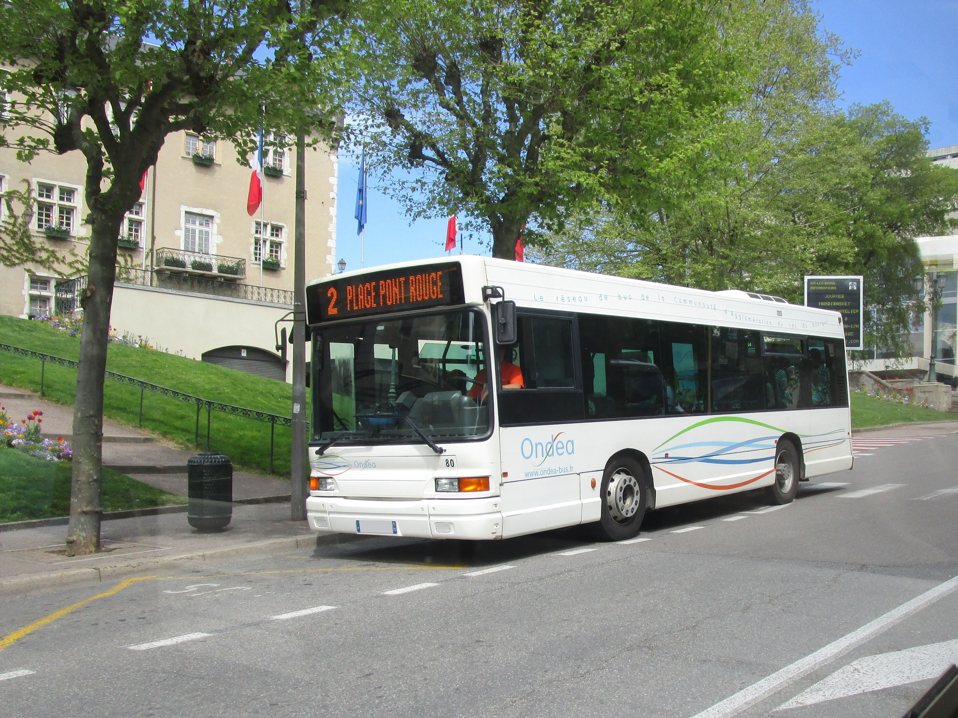 The bus Heuliez GX 117 n°80 of Ondéa at the call Hôtel de Ville in Aix-les-Bains on April 22, 2015.